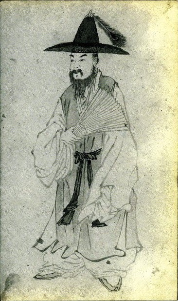 Park Chega, Korean Politicians and philosopher